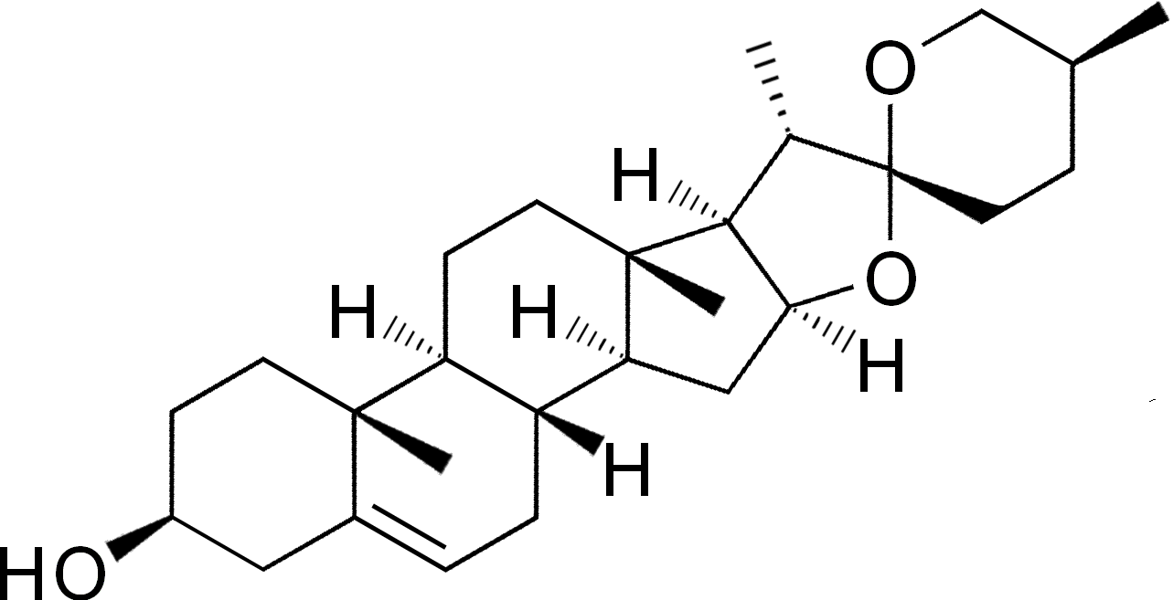 chemical structure of yamogenin